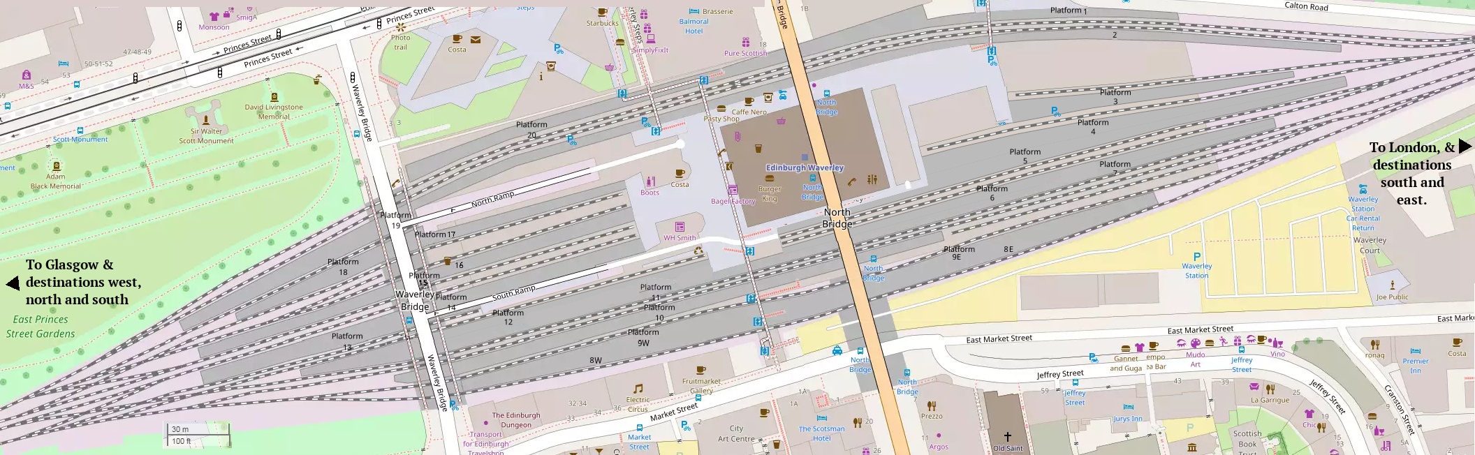 Plan of Edinburgh Waverley station. This map may be incomplete, and may contain errors. Don't rely solely on it for navigation.